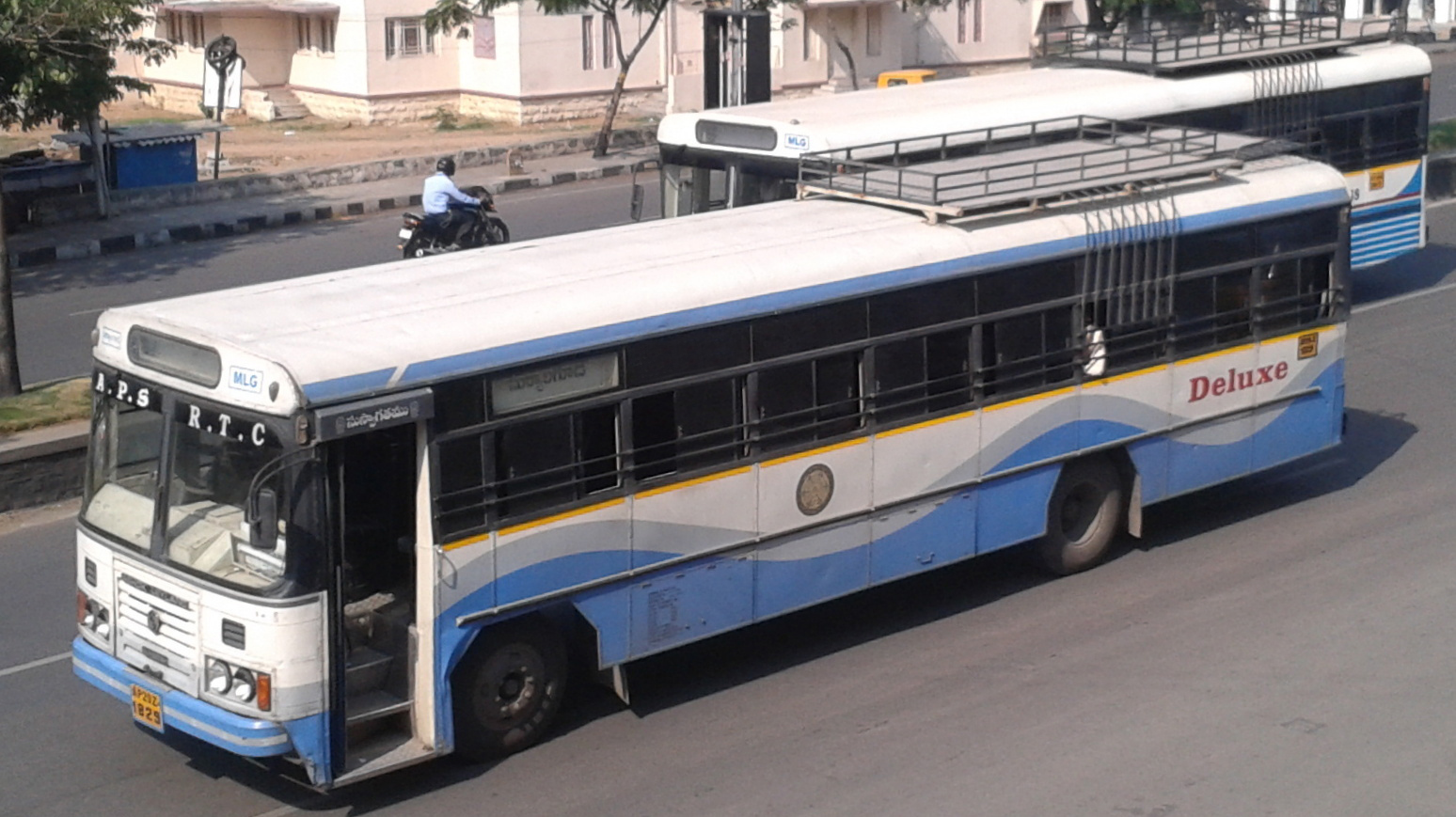 an intercity/inter town bus built on Ashok Leyland Viking / TATA 1512C chassis by BBU Miyapur . This bus has Comfortable seats and is mainly operated as Non-Stop services connecting major cities with near by towns/district head quarters .